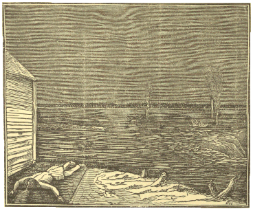 Corpse of Amos Durfee